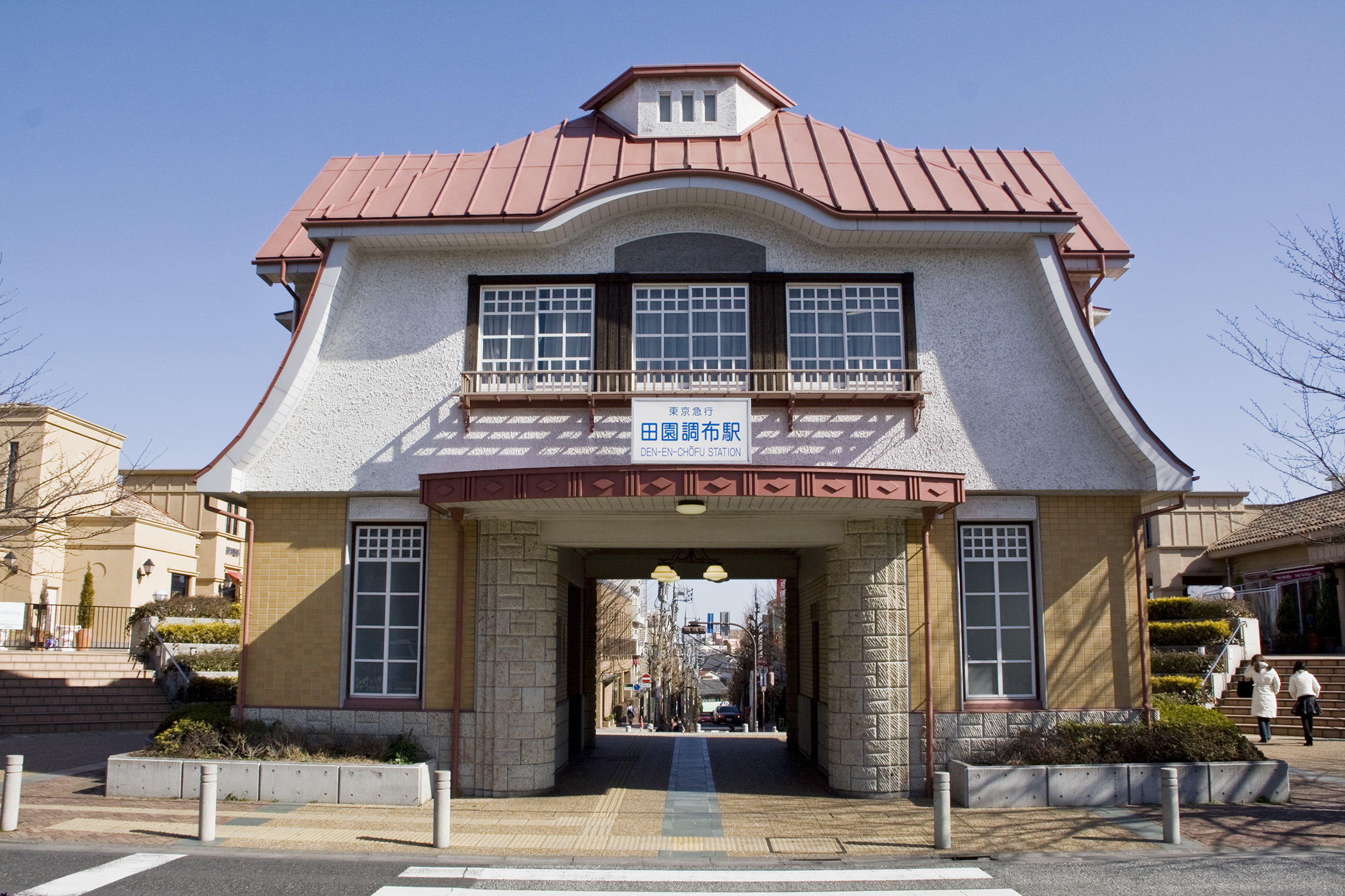 Den-en-chofu station(Restored old building)